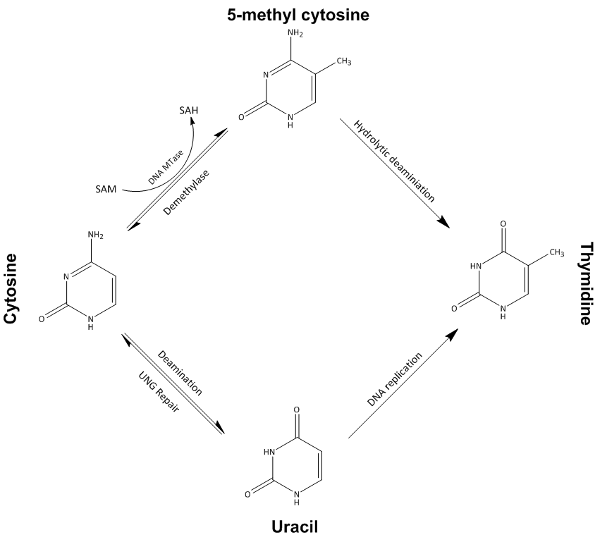 Possible pathways of cytosine methylation and demethylation. Abbreviations: S-Adenosyl-L-homocysteine (SAH), S-adenosyl-L-methionine (SAM), DNA methyltransferase (DNA MTase), Uracil-DNA glycosylase (UNG). Adapted from Singal, Rakesh, and Gordon D. Ginder. "DNA methylation." Blood 93.12 (1999): 4059-4070. Made in Chemdraw Ultra.